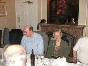 The A1 Steam Locomotive Trust's President, Mrs Dorothy Mather, and Chairman, Mr Mark Allatt